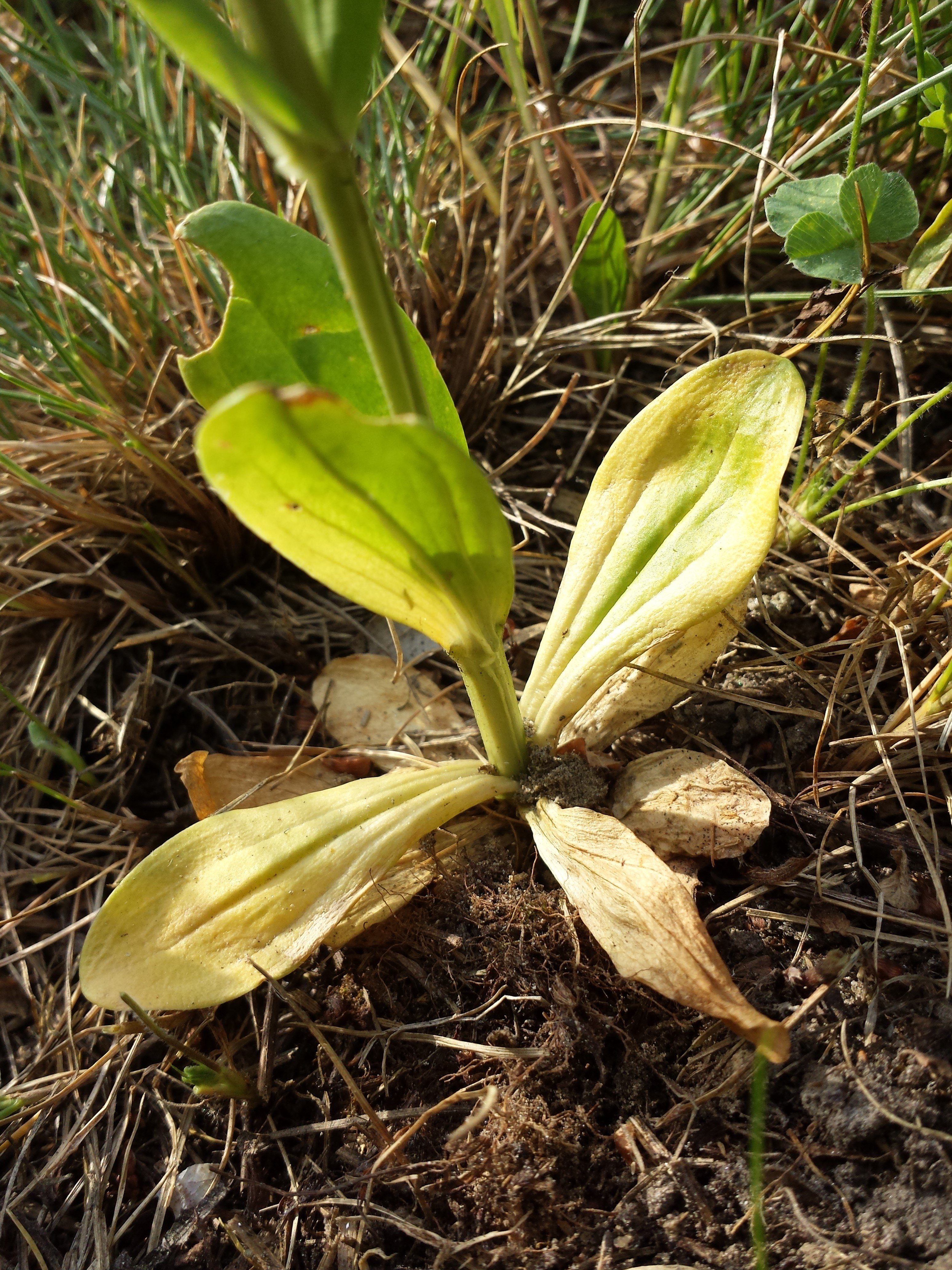 Rosette-leaves Taxonym: Centaurium erythraea (subsp. erythraea) ss Fischer et al. EfÖLS 2008 ISBN 978-3-85474-187-9 Location: Neue Donau, district Korneuburg, Lower Austria - ca. 160 m a.s.l. Habitat: dry meadows